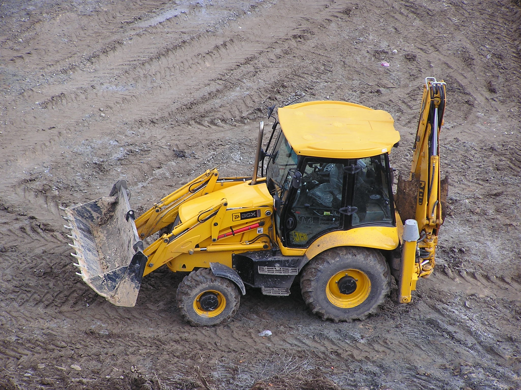 A JCB 3CX backhoe loader